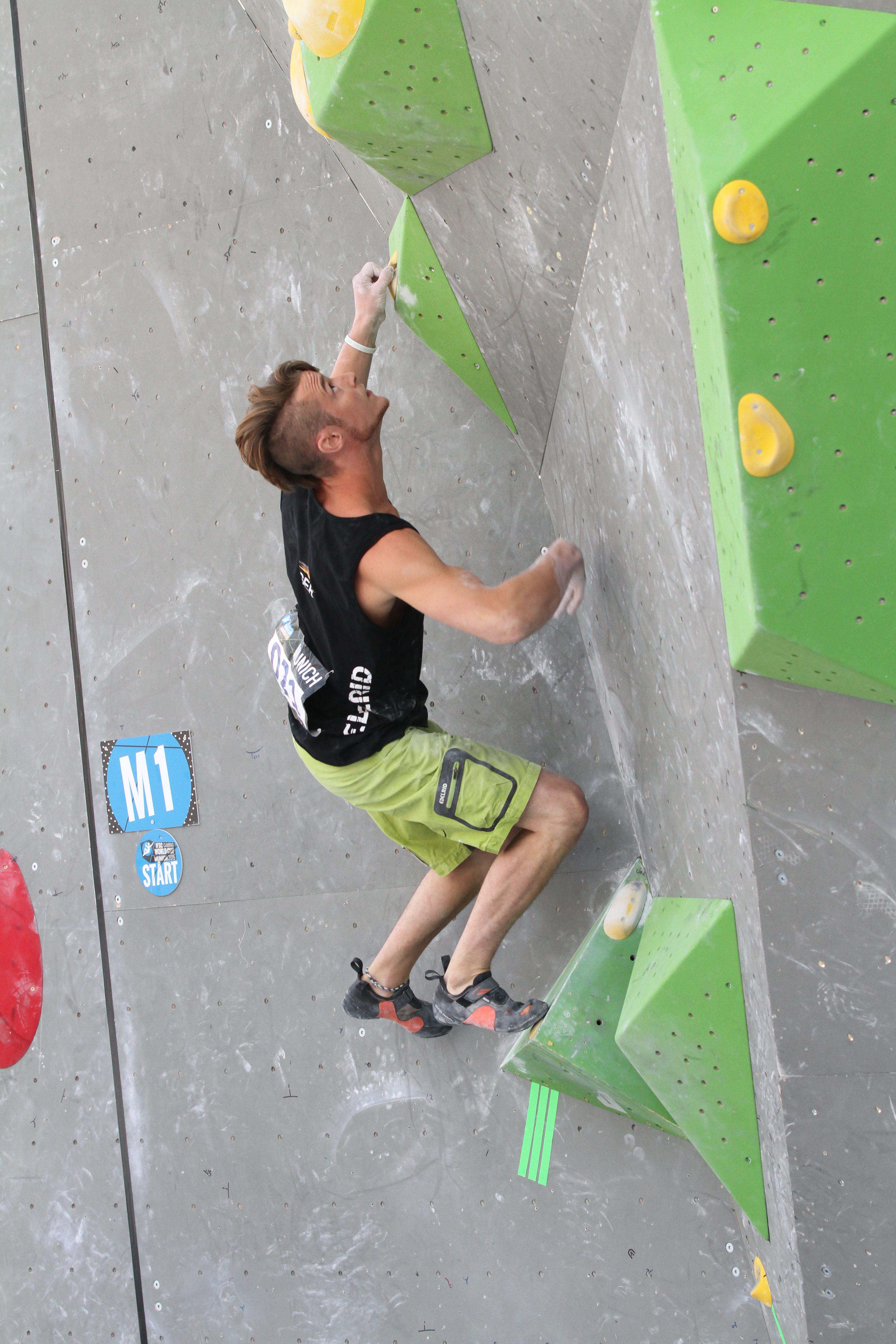 IFSC Boulder Worldcup, Munich 2015. Mathias Conrad (GER)